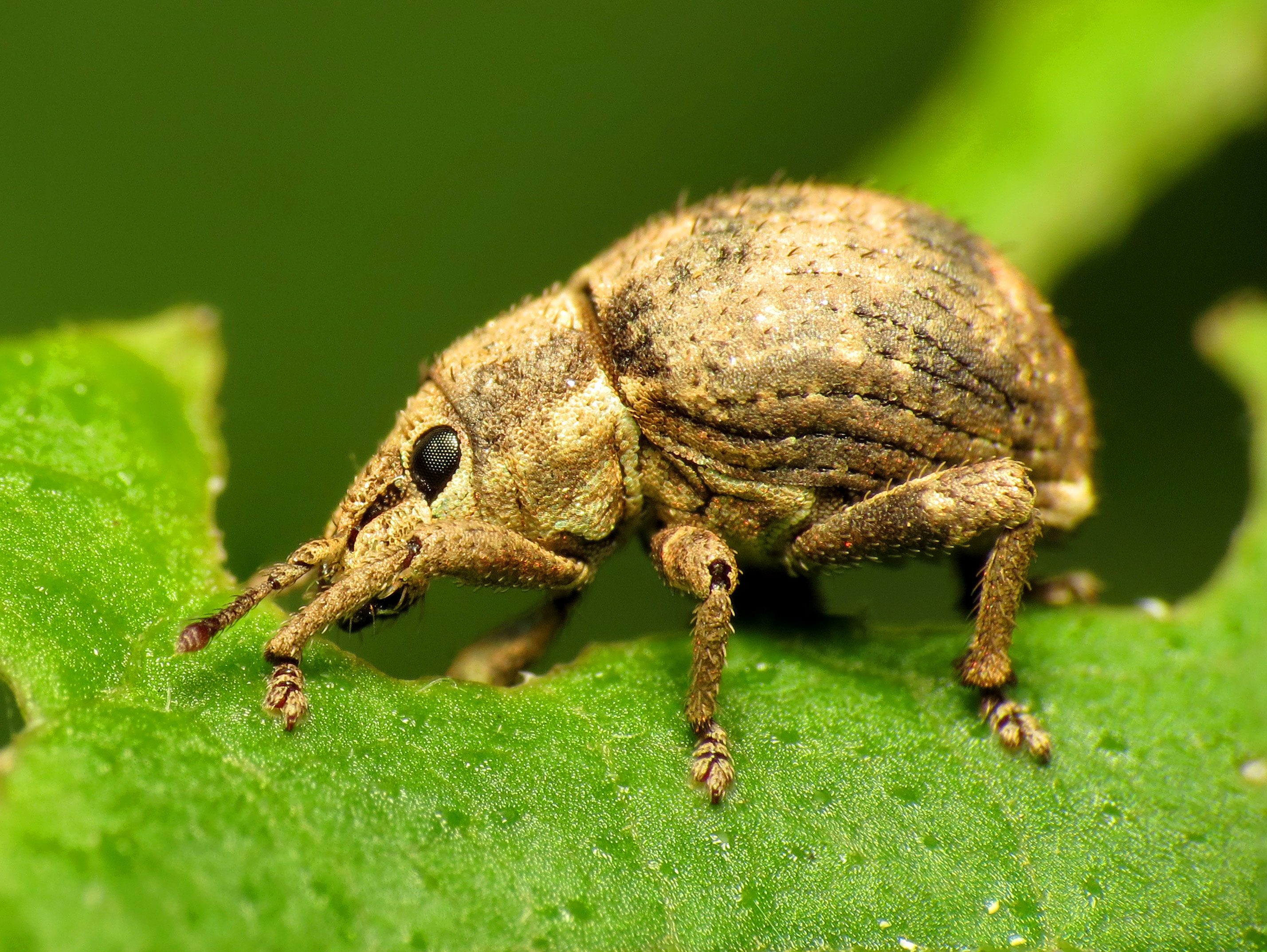 Pseudocneorhinus bifasciatus. Rock Creek Park, Washington, DC, USA